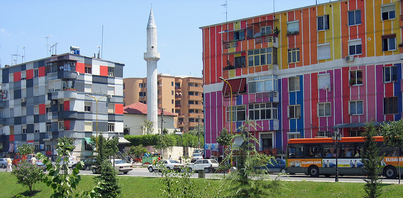 Tirana, Albania: Colourful houses along the Lana River. Tabakëve Mosque.